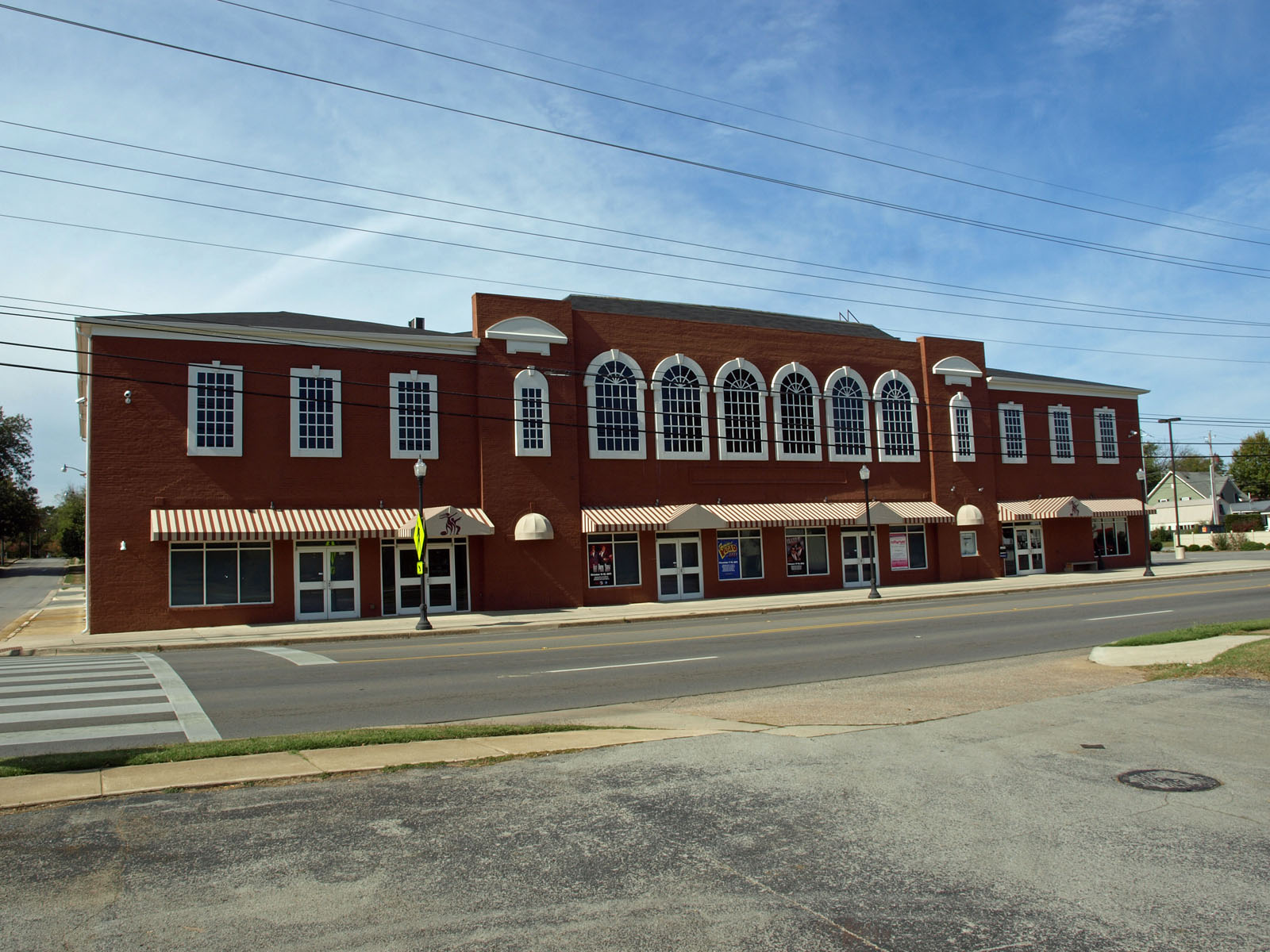 Merrimack Hall Performing Arts Center in Huntsville, Alabama, the former company store of Merrimack Mill.